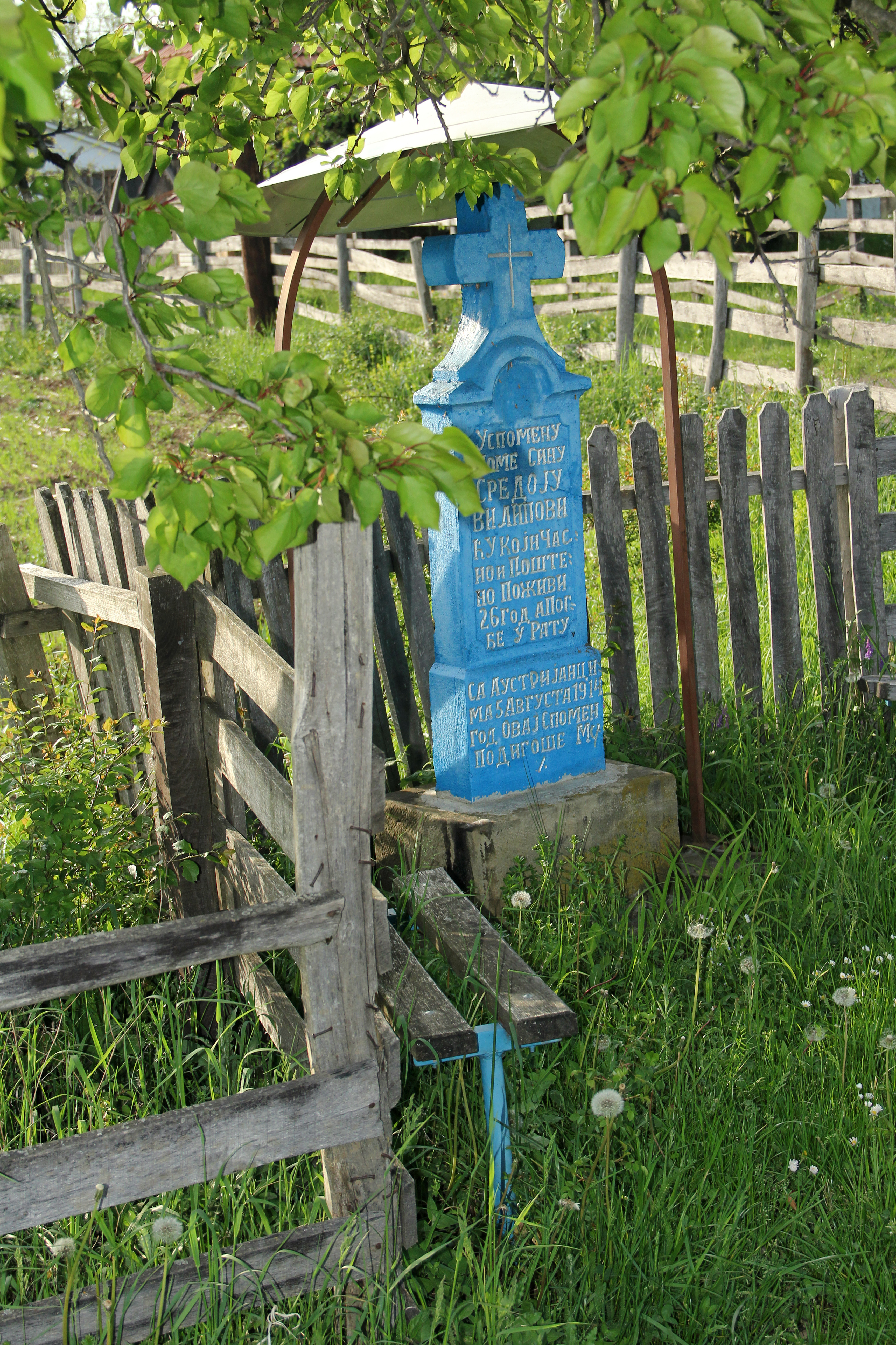 Roadside tombstone erected in memory of a soldier Sredoje Filipovic from the village of Srezojevci. It is located on the border of villages Bersici, Drenova and Srezojevci, municipality of Gornji Milanovac, Serbia.